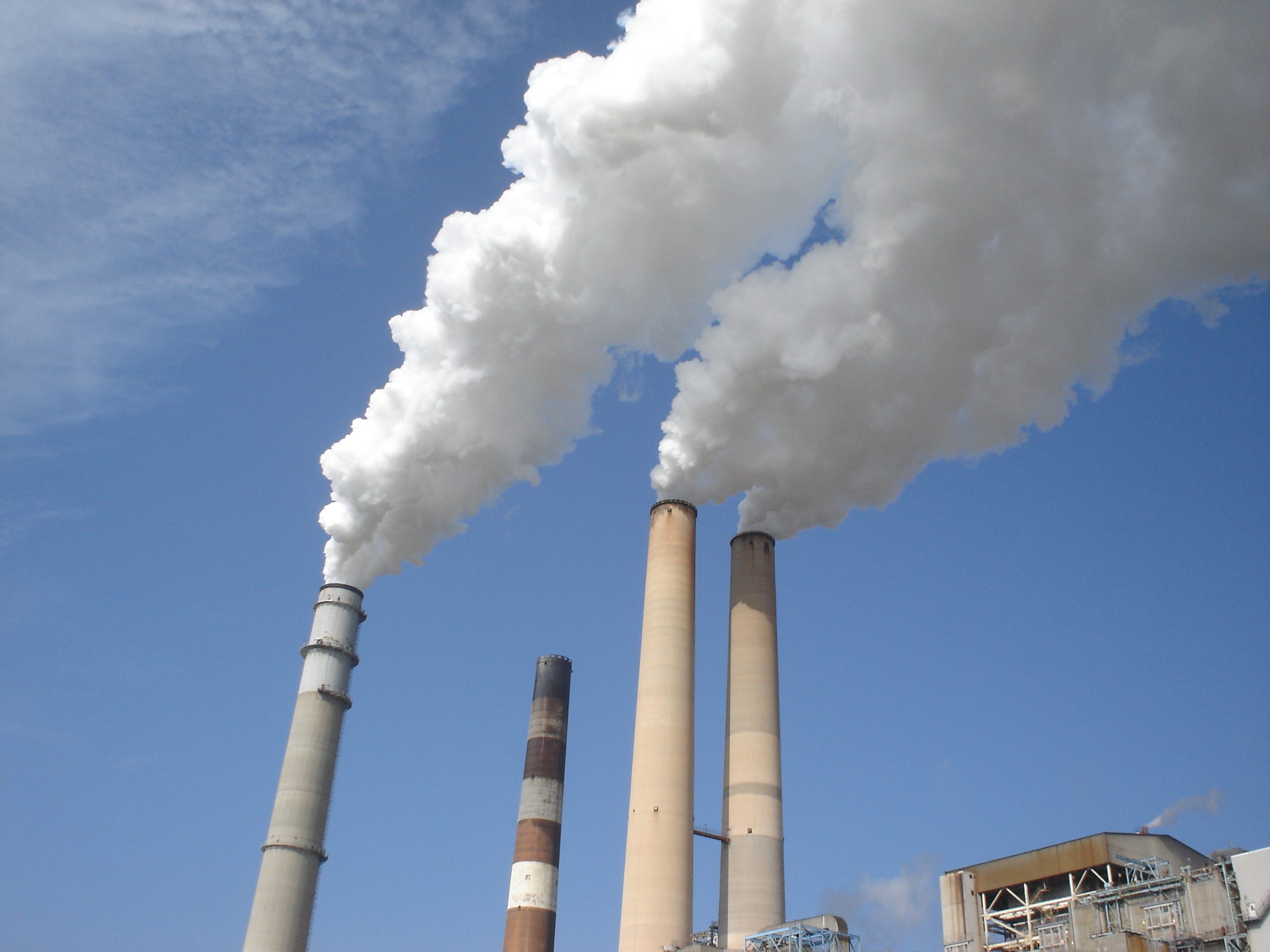 Apollo Beach power plant in Apollo Beach, Florida.